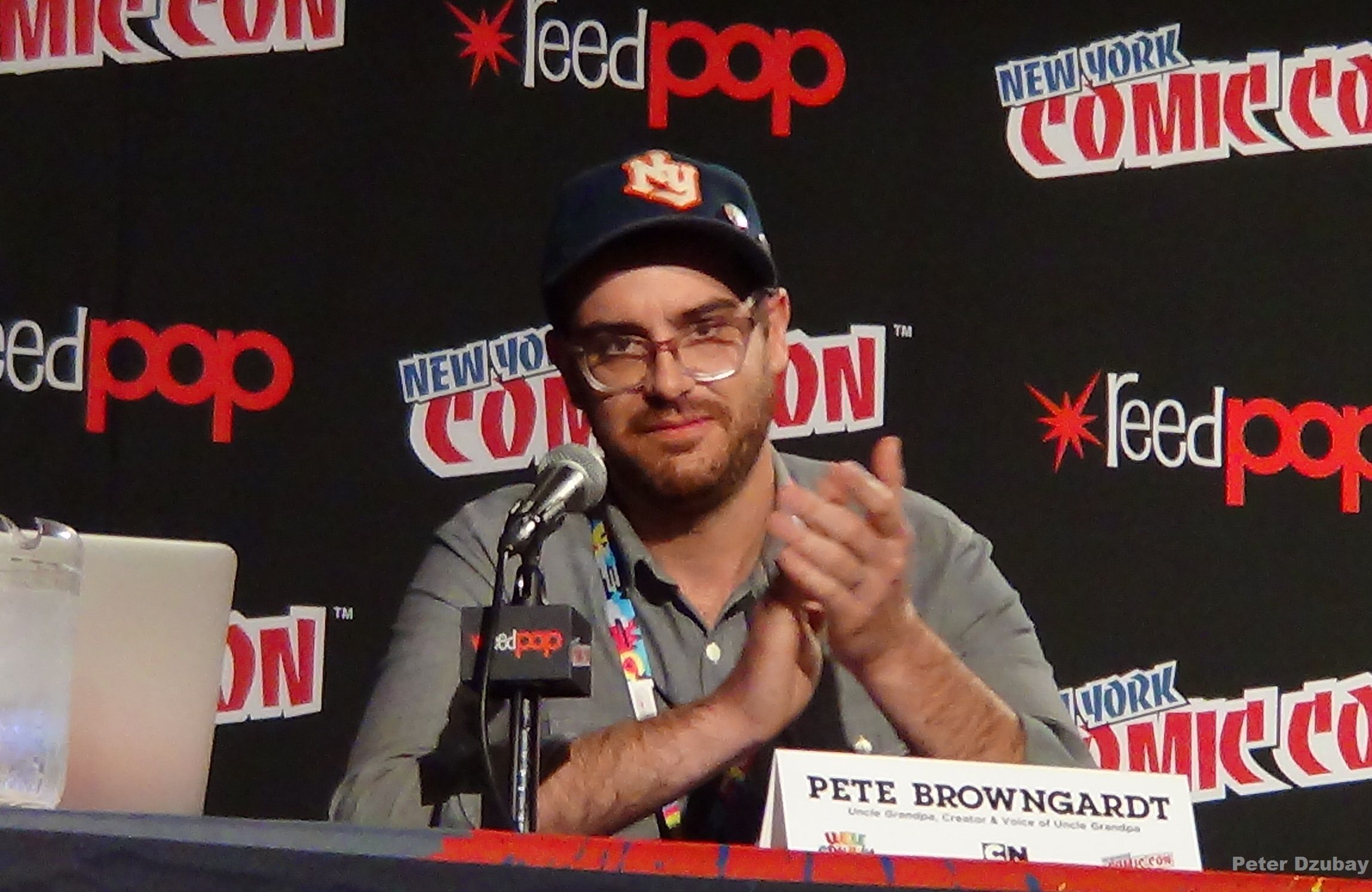 Pete Browngardt talking at the Cartoon Network Presentsː CN Anythingǃ panel at the 2014 New York Comic Con. PHOTO BY PETER DZUBAY